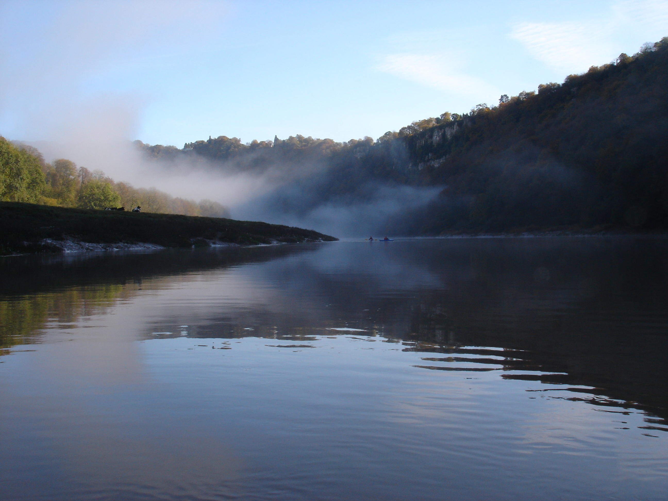 River Wye Tintern to Chepstow